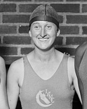 From left to right, American swimming champions Ludy Langer (1893 - 1984), Claire Galligan and Duke Kahanamoku (1890 - 1968, right), circa 1920.